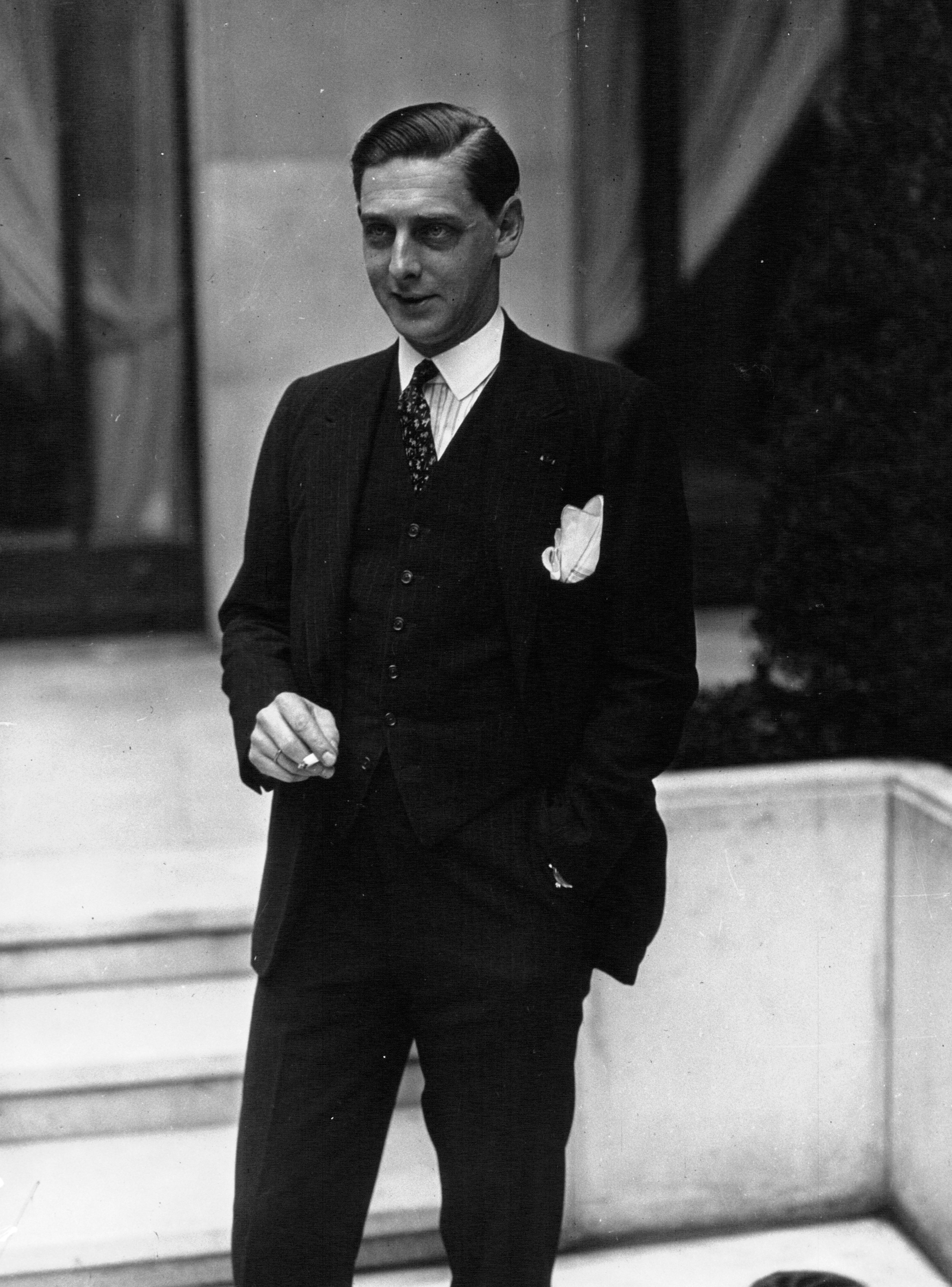 Prince Nicholas of Romania (1903-1978).